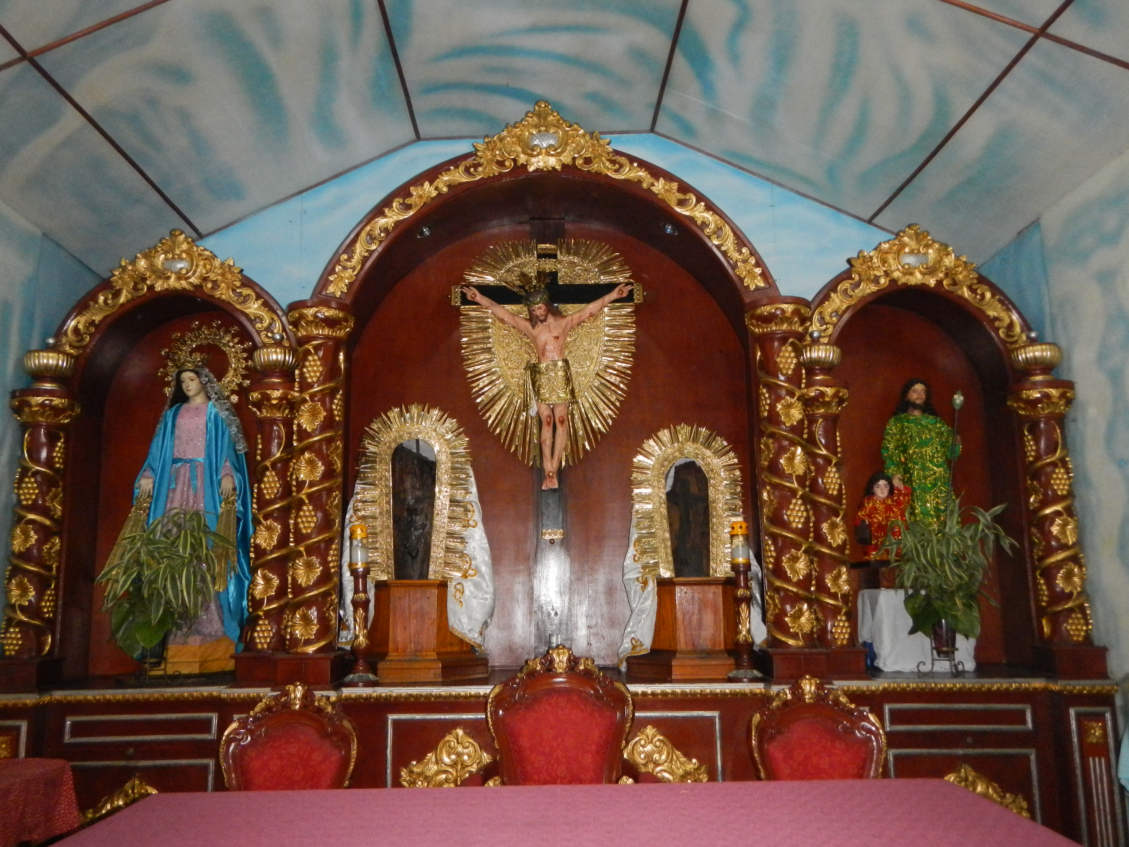 Upload Wizard photos of - the Kambal na Krus Chapel [1] [2] located at Raxabago St, Tondo, Manila [3] Philippines under the administration of Saint Joseph de Gagalangin Parish Church of Tondo with its parish priest, Rev. Fr. Nestor M. Gungon scopes 6 Barangays Feast Day is the Third Sunday Of March [4]Coordinates: 14°37'13"N 120°58'16"E.